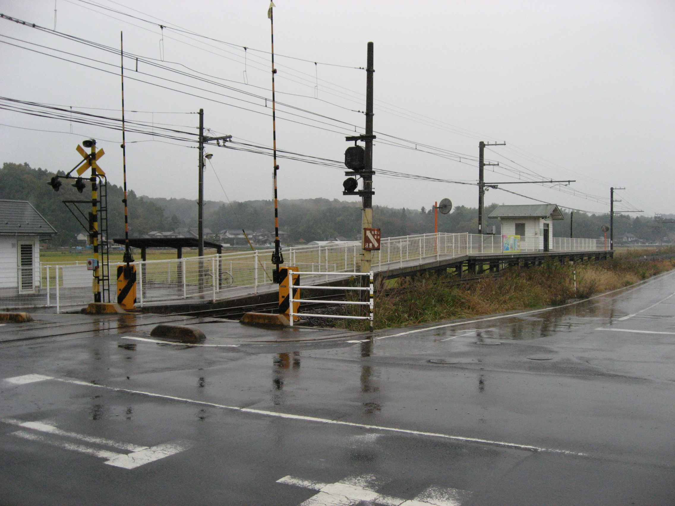 Ichibata Electric Railway Koyukan-shin-eki Station